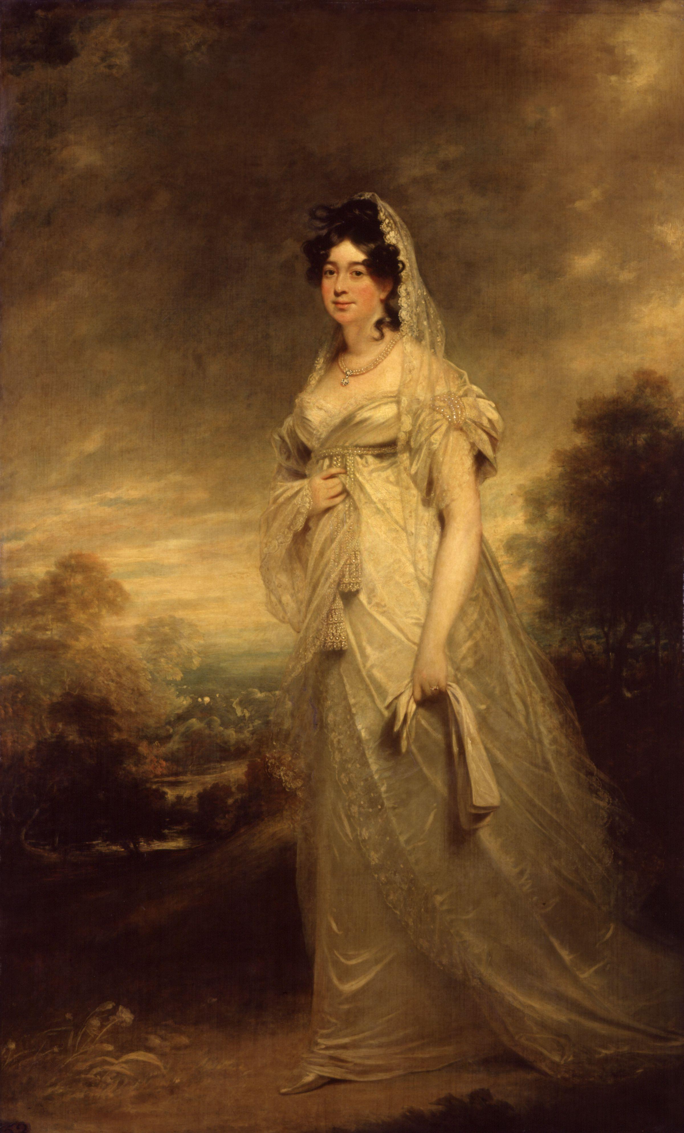 Harriot (Mellon), Duchess of St Albans, by Sir William Beechey (died 1839). All images in this batch have been confirmed as author died before 1939 according to the official death date listed by the NPG.